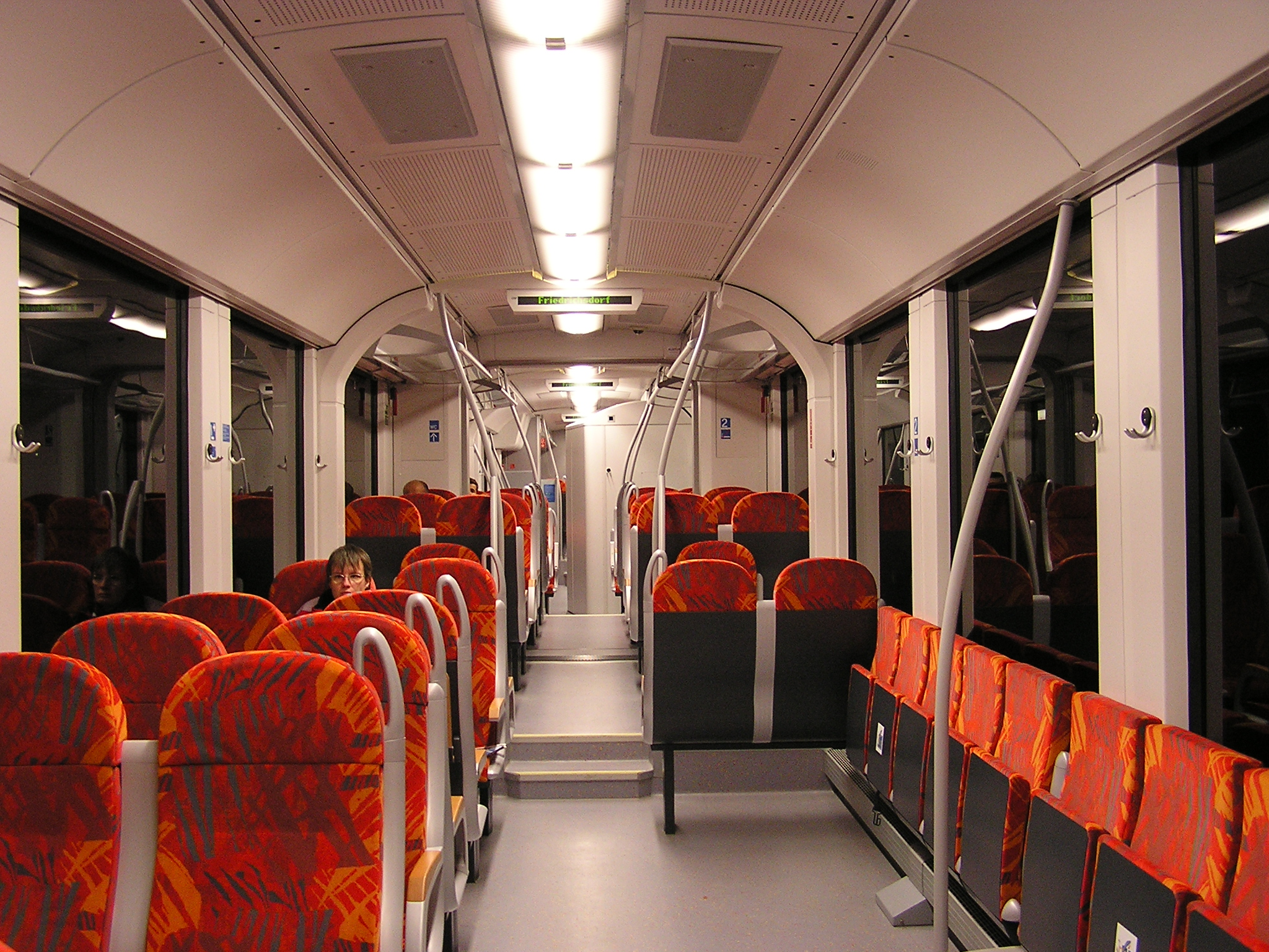 Interior view of a LINT 41 of the Hessische Landesbahn for the Taunusbahn